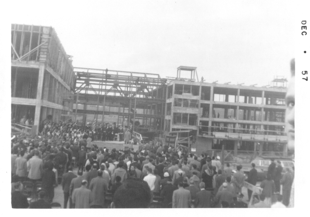 Dedication of the new building for the Bronx High School of Science on a raw fall day in late 1957. Photo was taken by me with a Brownie Hawkeye and developed in December 1957.